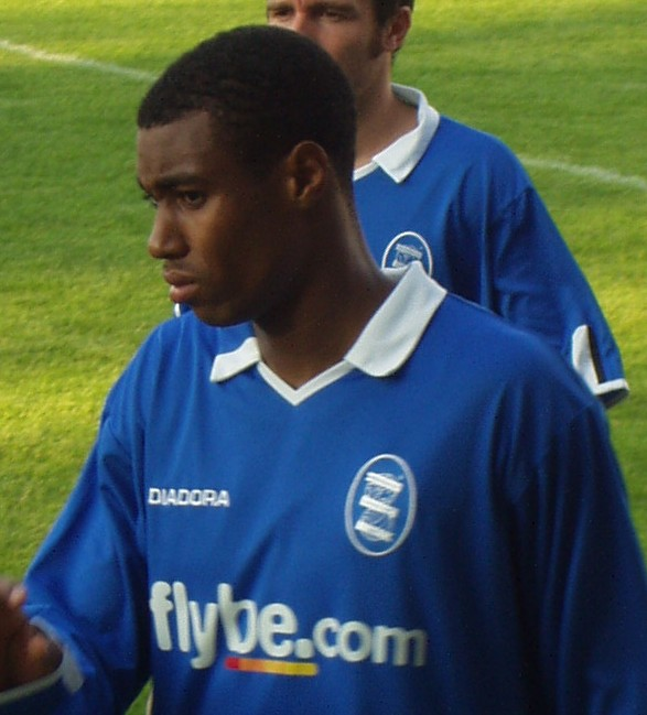 Football (soccer) winger Julian Gray (then of Birmingham City F.C.) at pre-season tournament at Weiden, Germany